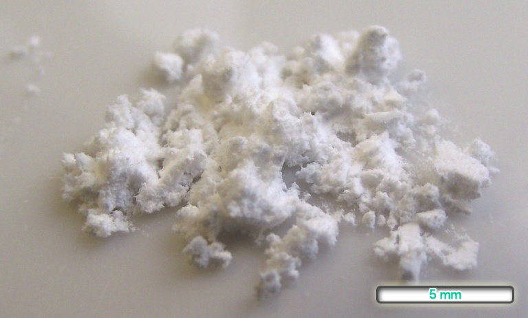 Photo of Ambroxol-Hydrochloride, pure